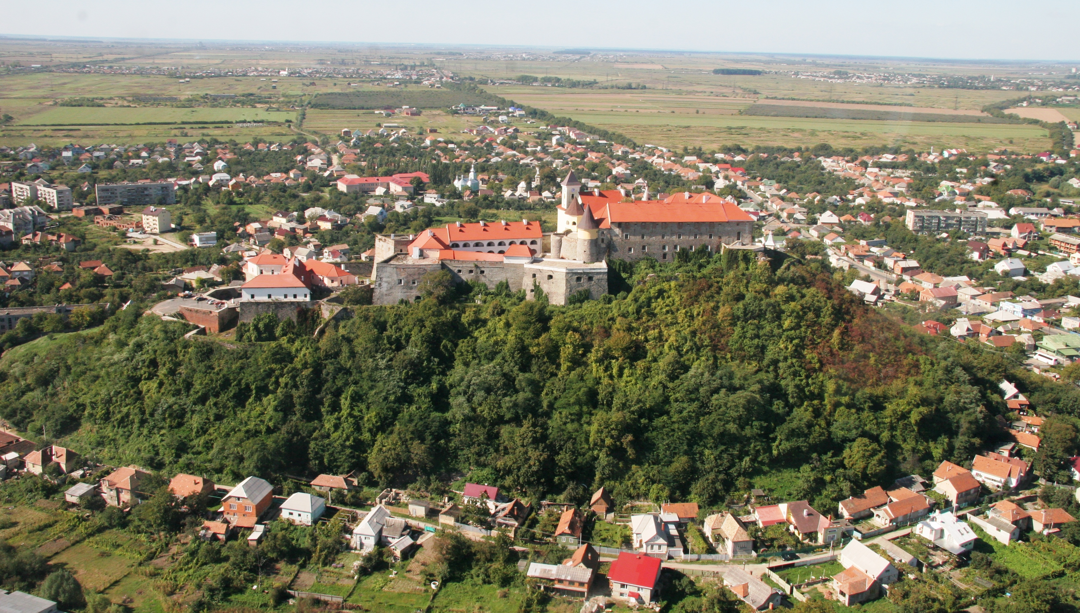 вигляд із сходу